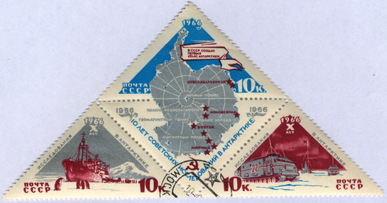 1966 USSR triangular postage stamp block (numbers 3318 through 3320 in the Soviet catalogue).